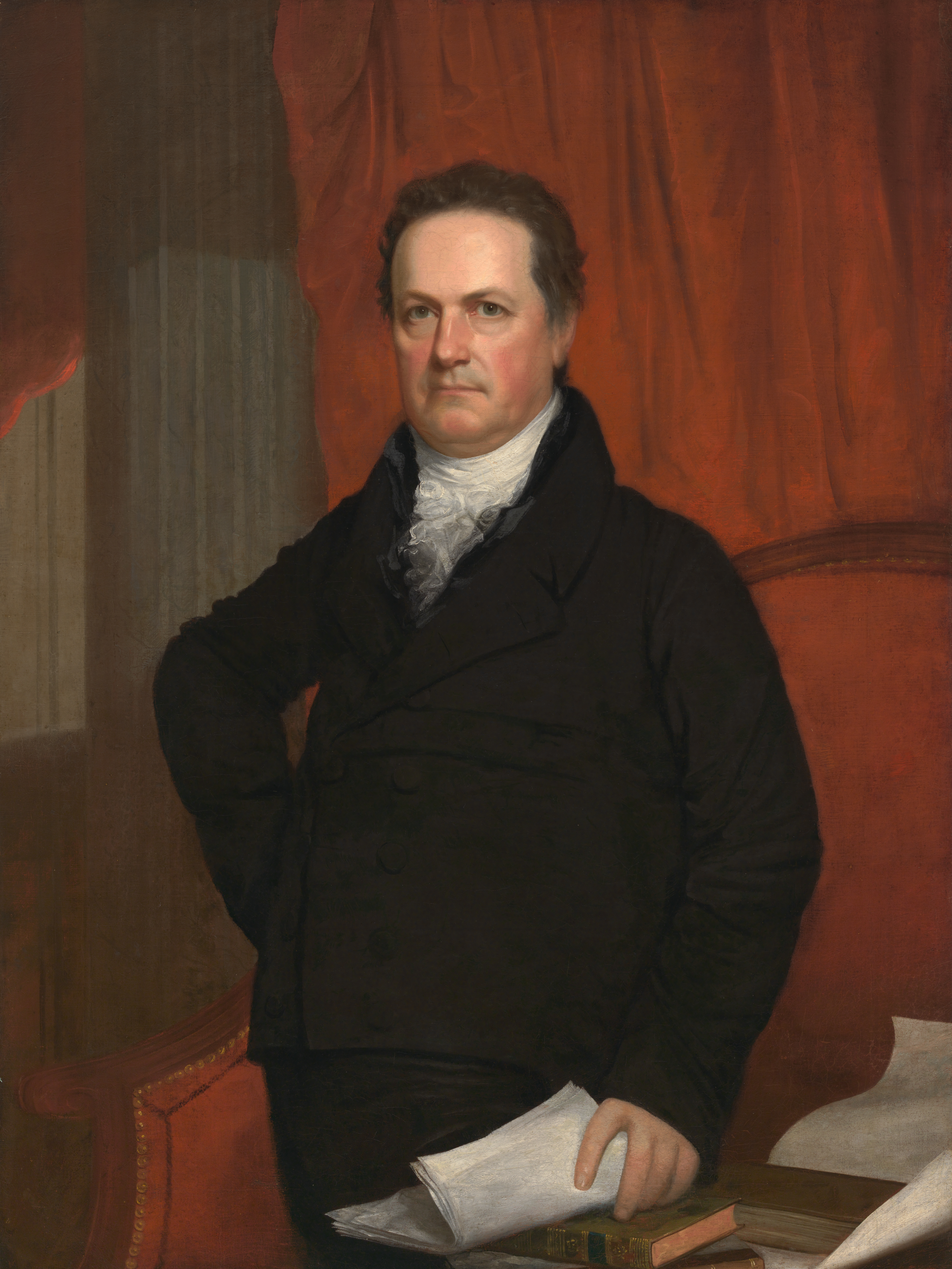 DeWitt Clinton, former Mayor of New York City and later Governor of New York State. Presided over the construction of the Erie Canal.